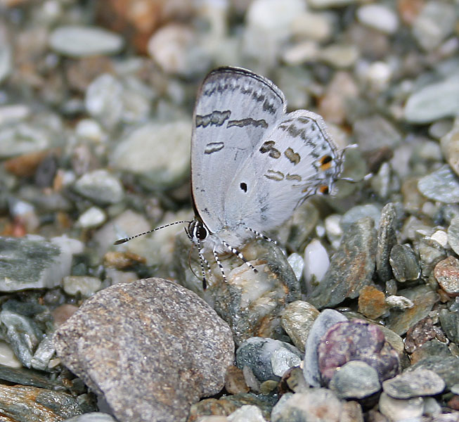 Blue Tit, Chliaria kina at Samsing in Darjeeling district of West Bengal, India.